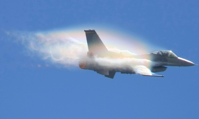 USAF F-16 Fighting Falcon fighter aircraft with water vapor condensation forming over wing surface. Photo by Scott Dunham on October 4, 2008 at MCAS Miramar, San Diego, California, USA.